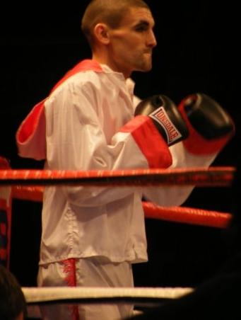 Martin Gethrin before round 1 vs scott lawton